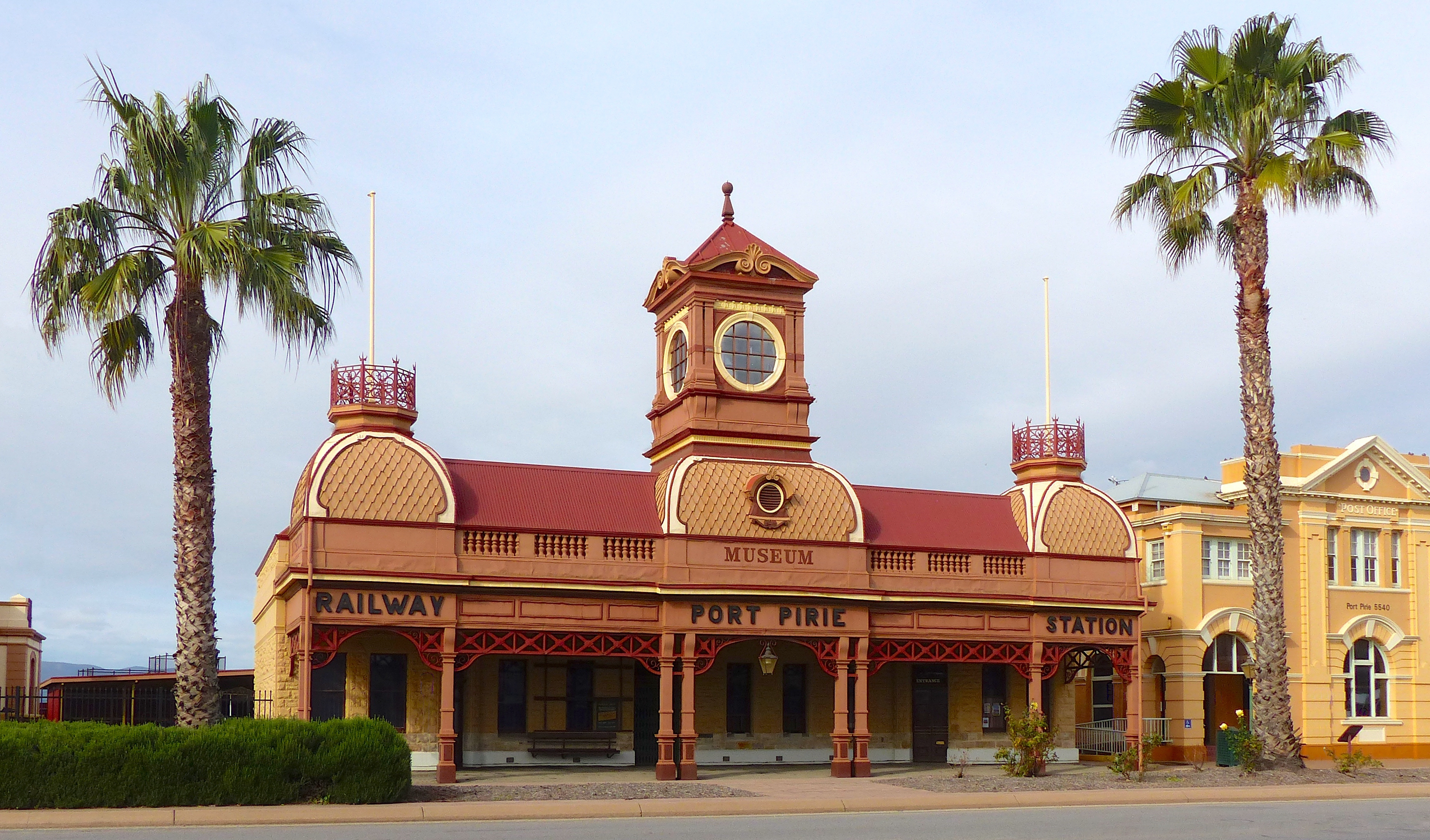 The Port Pirie railway station (now a museum of the National Trust of South Australia), 73-77 Ellen Street, Port Pirie. It was built by the former South Australian Railways in the Victorian Pavilion style in 1902, with most of the facade above the concourse being pressed sheet steel. Two tracks used to go down the middle of Ellen Street — one 1600 mm broad gauge, the other 1067 mm narrow gauge — and passengers would board trains at street level. Freight traffic, including ore and oil, also went along these tracks.